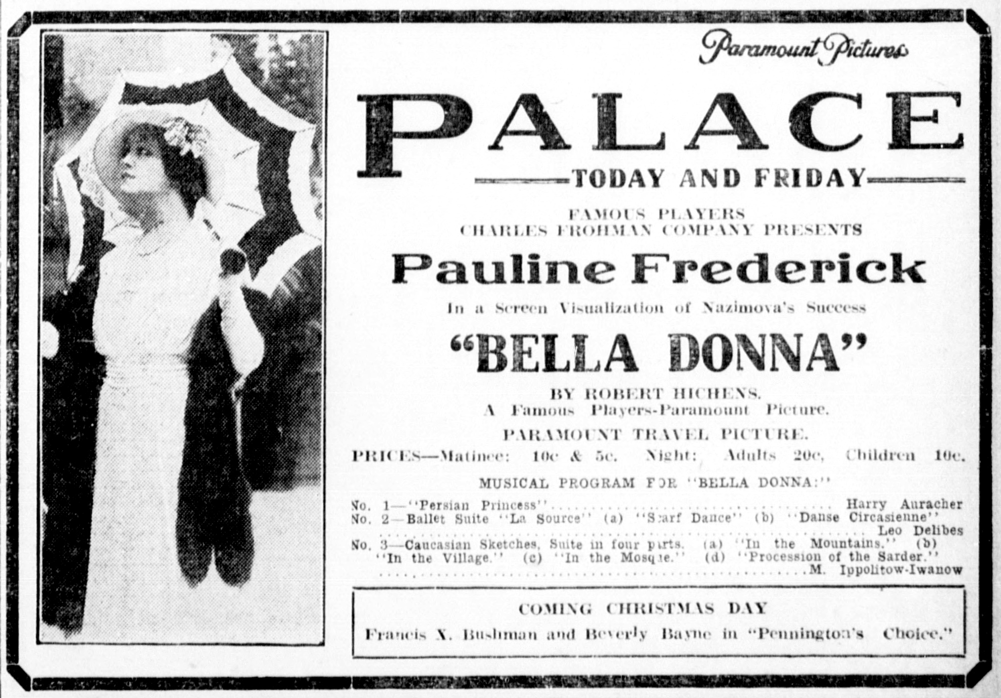 Bella Donna was a 1915 American silent drama film produced by Famous Players-Lasky and the Charles Frohman Company, starring Pauline Frederick. This is a newspaper advert.